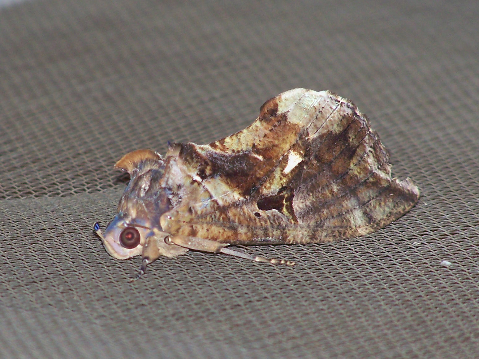 A fruit piercing moth, in Bangkok. Name: Eudocima phalonia (Noctuidae: Calpinae, sometimes included in subfamily Ophiderinae or Catocalinae). This is a big insect, about 8 cm long. When flying its wings appeared black with bright orange.